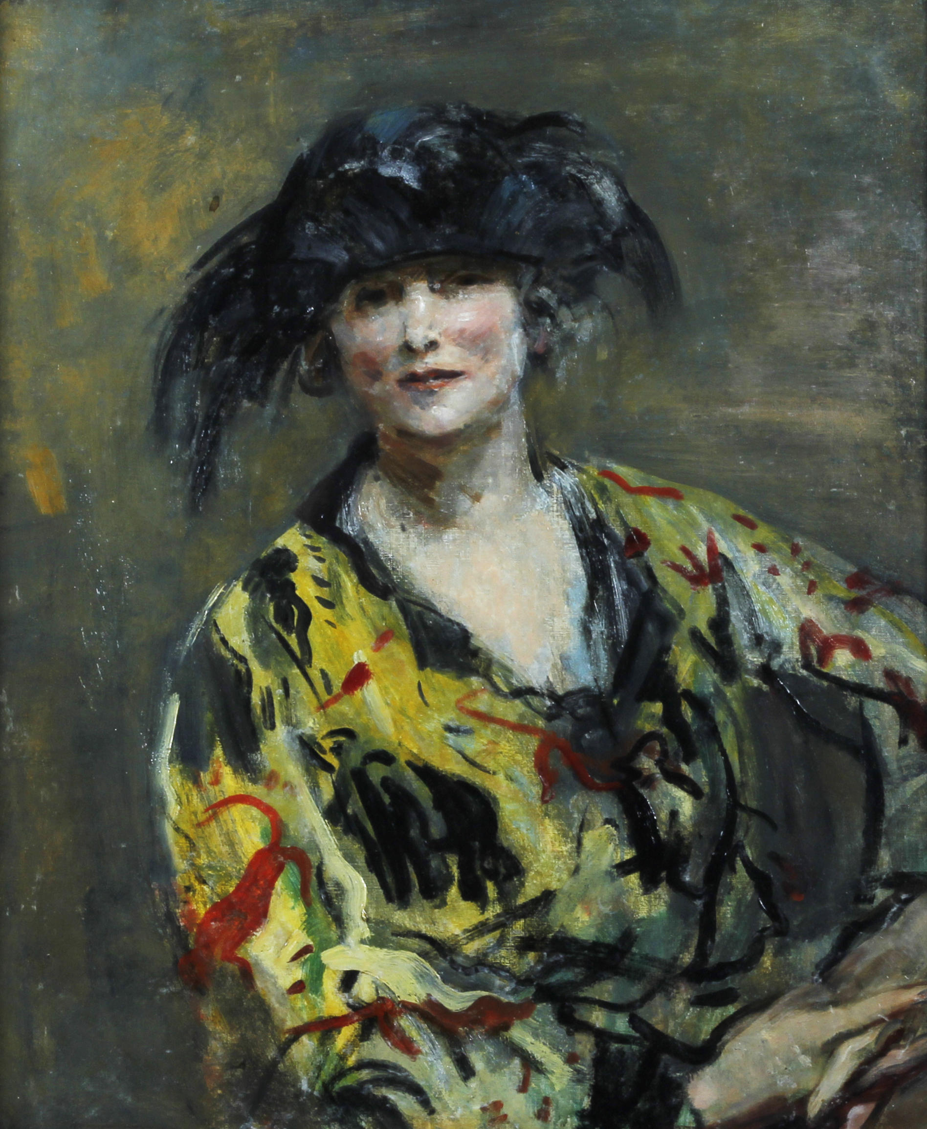 Portrait of Eugenia Errázuriz Chilean patron of modernism and a style leader of Paris from 1880 into the 20th century, who paved the way for the modernist minimalist aesthetic before 1923 date QS:P,+1923-00-00T00:00:00Z/7,P1326,+1923-00-00T00:00:00Z/9